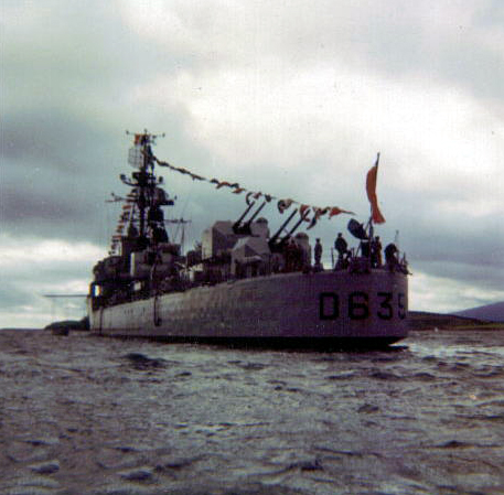 The French destroyer Forbin (D635) on a visit to Bantry Bay, in the 1970s.